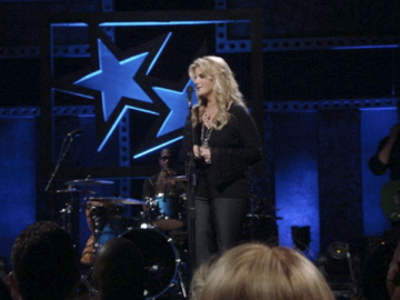 picture of trisha yearwood at filming of cma's crossroads taken by JM Criswell in September of 2007